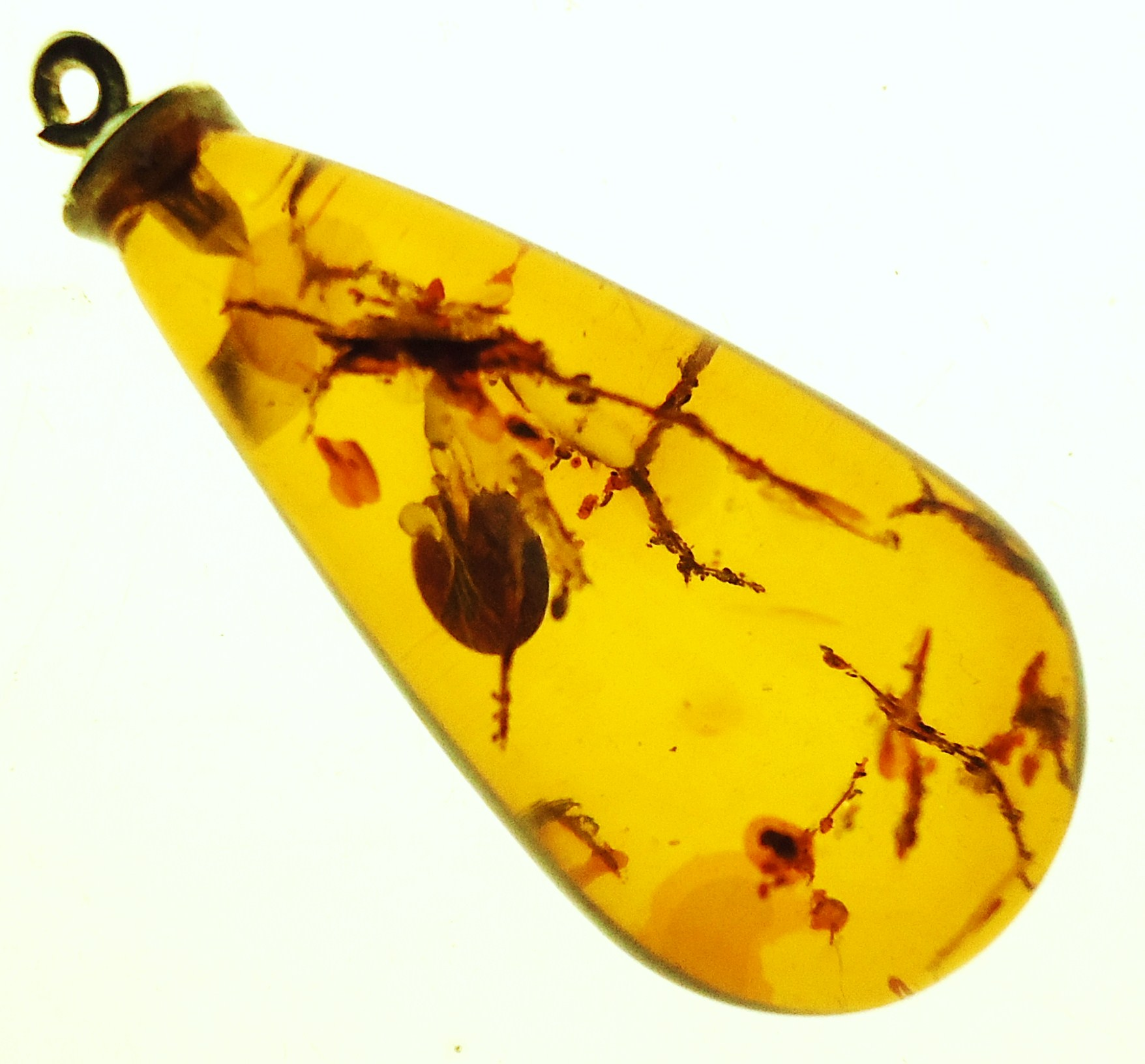 Turkish amber illuminated from behind on a light table.